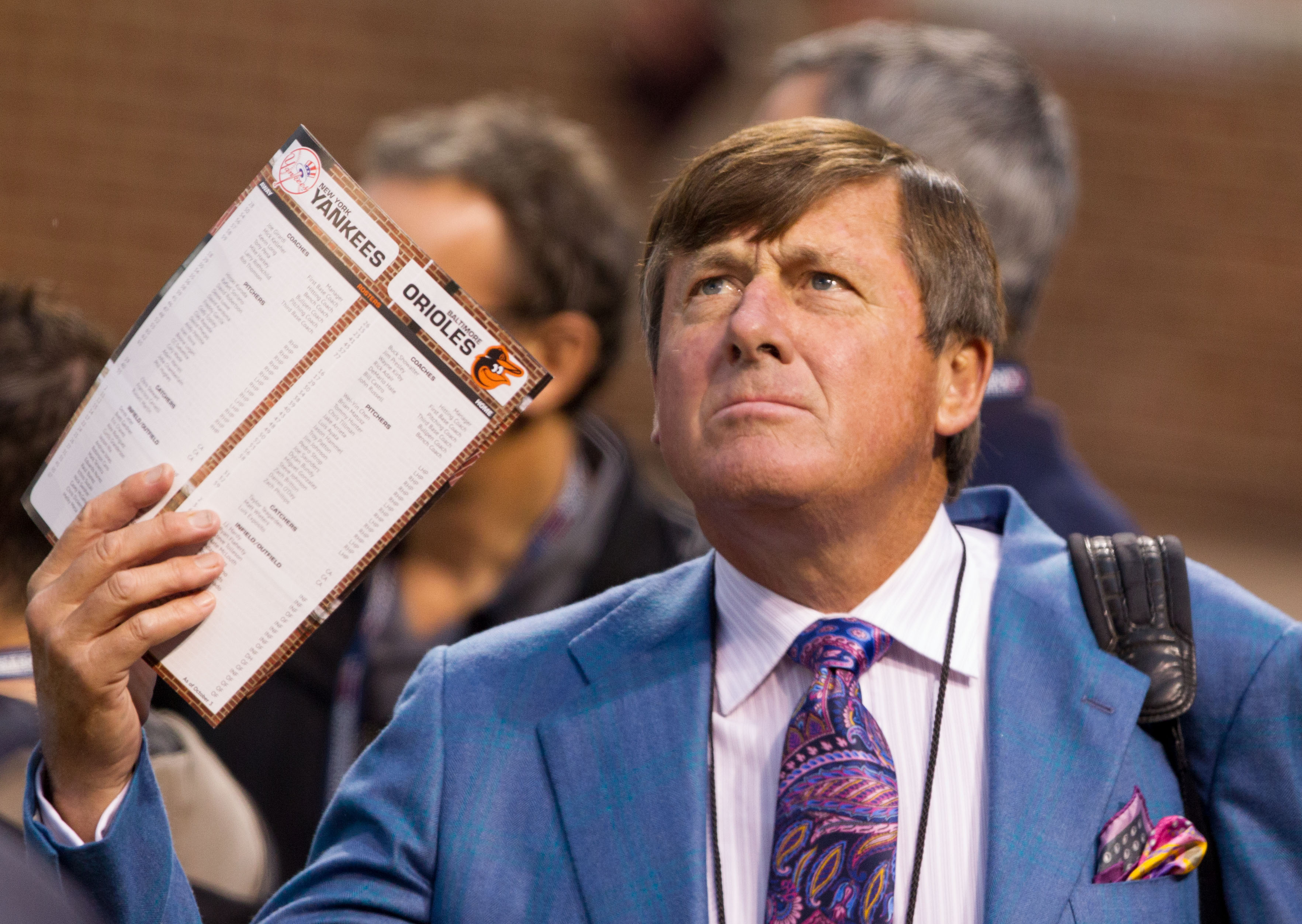 New York Yankees at Baltimore Orioles. ALDS Game 1. October 7, 2012.